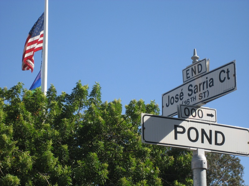 Image of the street sign for José Sarria Court